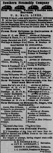 The Southern Steamship Company was managed and owned by Charles Morgan (1795-1878). The company ran regular steamship service between New Orleans and Galveston.